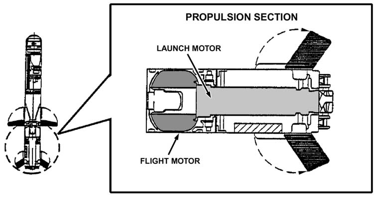 FGM-148 Missile propulsion system (2-stage)